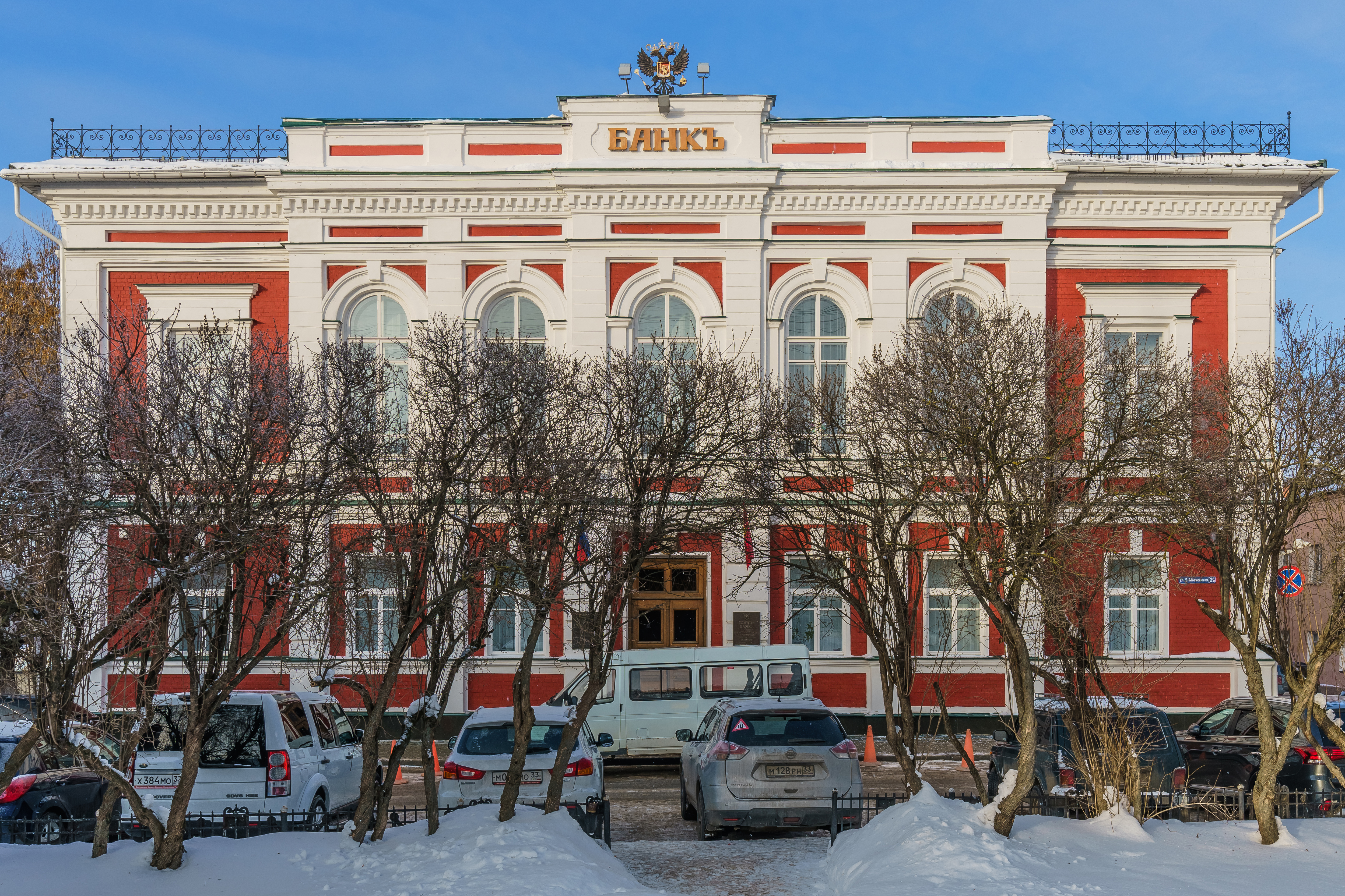 Building at Bolshaya Moskovskaya Street 29 in Vladimir, Russia